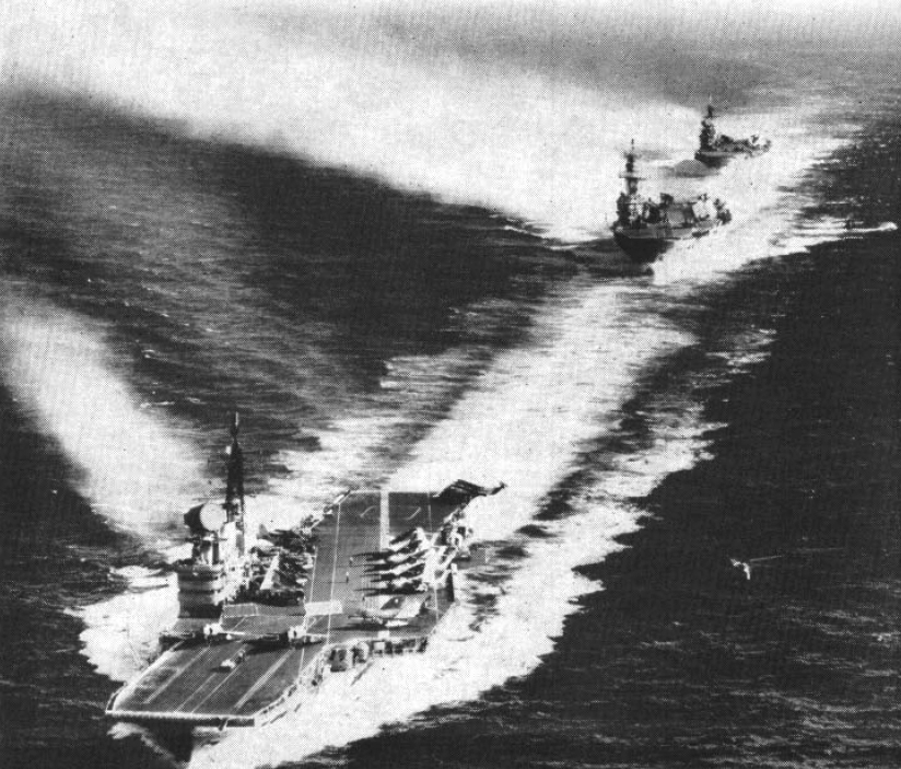 The Royal Navy aircraft carriers HMS Victorious (R38), HMS Ark Royal (R09) and HMS Hermes (R12), front to back, underway, circa 1961.